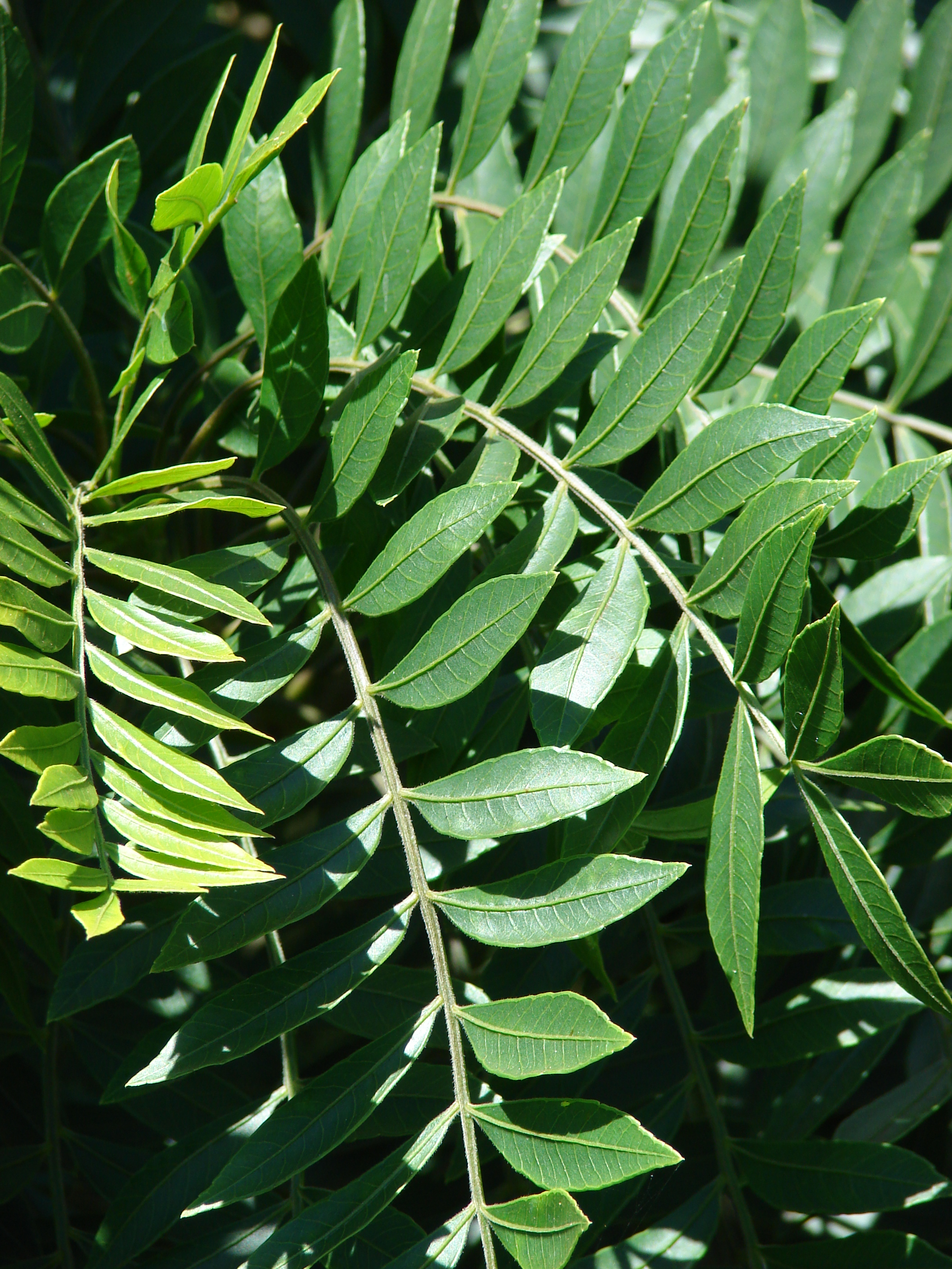 Spondias mombin (leaves). Location: Maui, Enchanting Floral Gardens of Kula